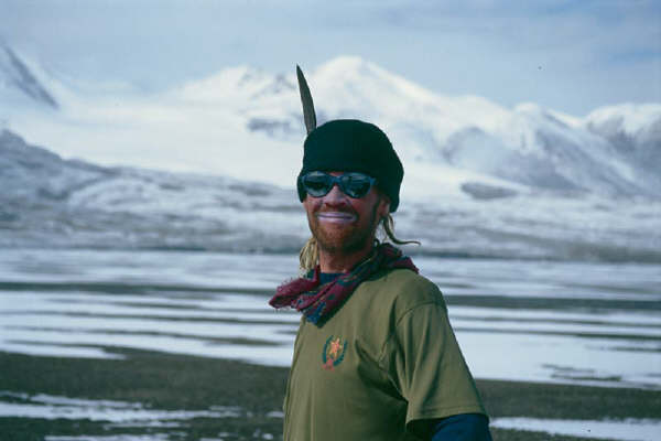 Janne Corax among Kunlun Mountain Range